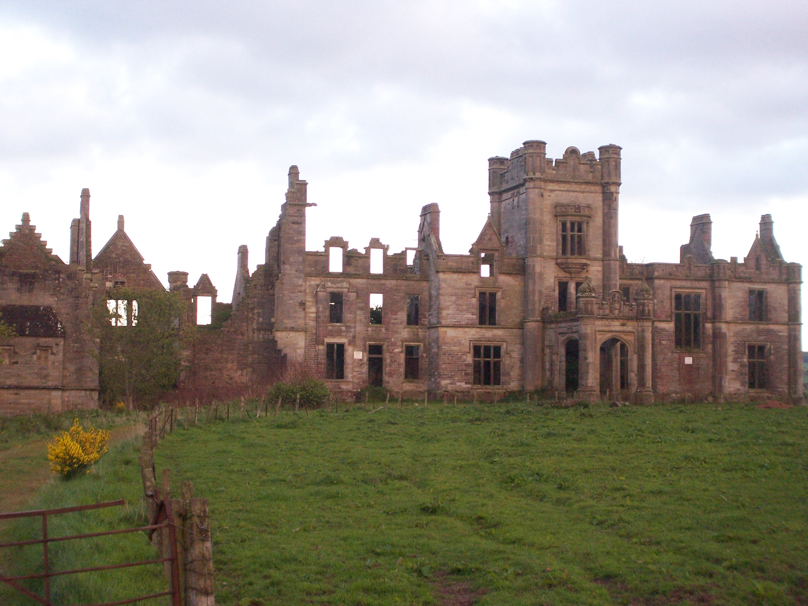 Photo of main front of Ury House, Stonehaven. Taken 2006